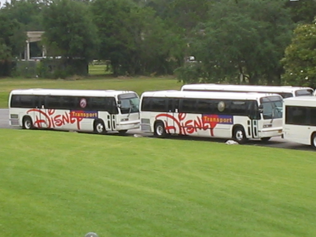 Busses Disney, Orlando, May 2005, two RTS-06 and the rear of a Gillig Advantage